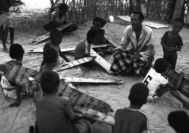 Rural Quran school, with students using wooden slates to learn Arabic